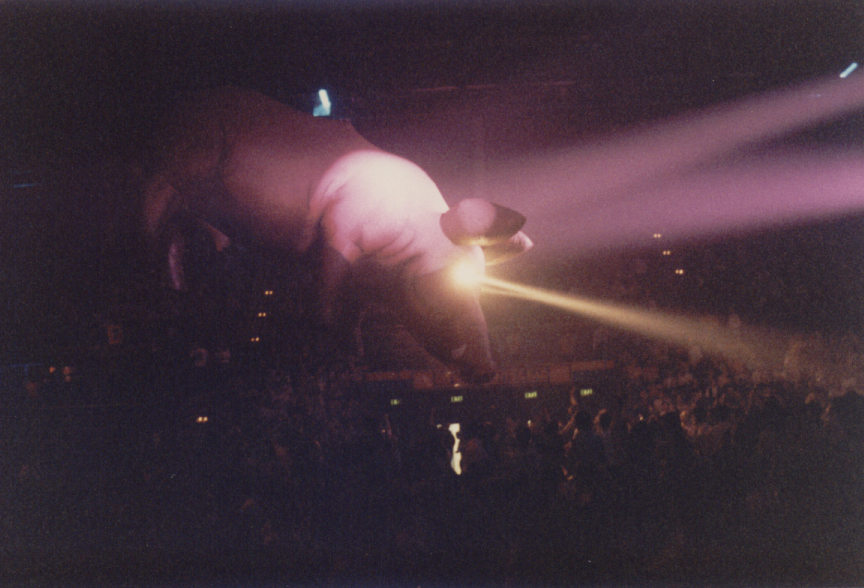 Pink Floyd at Docklands Arena 1989 - if pigs could fly!